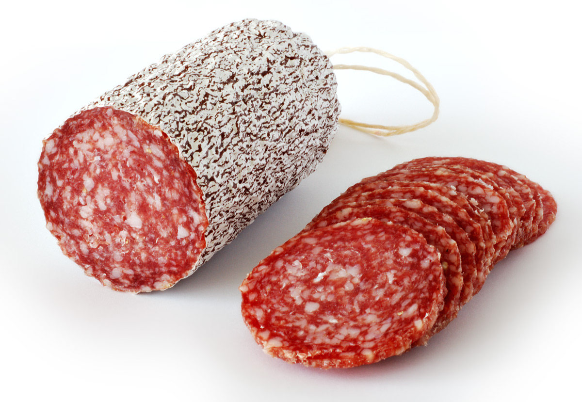 This image shows a salami.